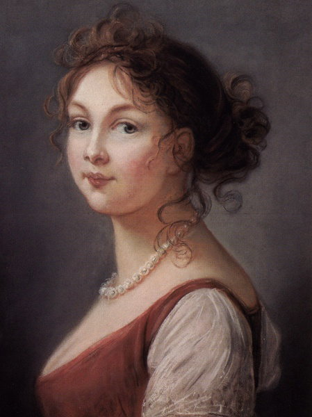 Louise, Queen of Prussia